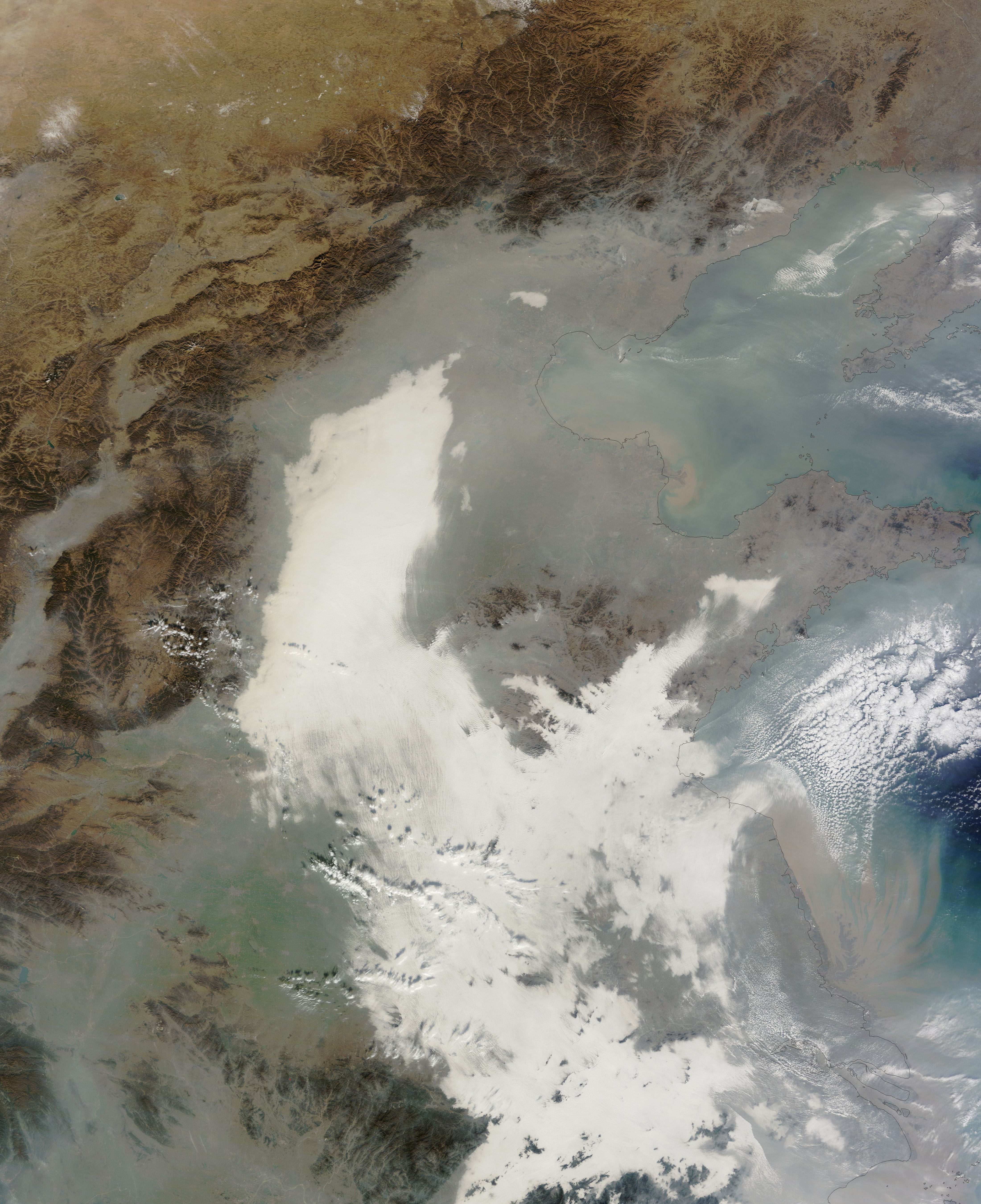 China suffered another severe bout of air pollution in December 2013. When the Moderate Resolution Imaging Spectroradiometer (MODIS) on NASA’s Terra satellite acquired this image on December 7, 2013